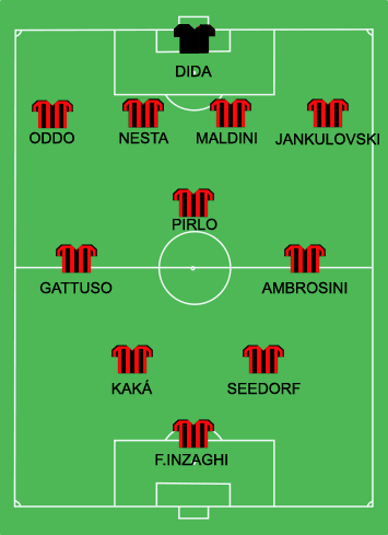 AC Milan lineup, Milan vs. Liverpool FC 2-1, 23 May 2007